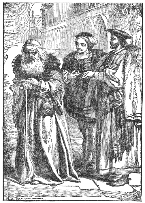 Antonio reproaching Shylock (characters from William Shakespeare's play The Merchant of Venice)